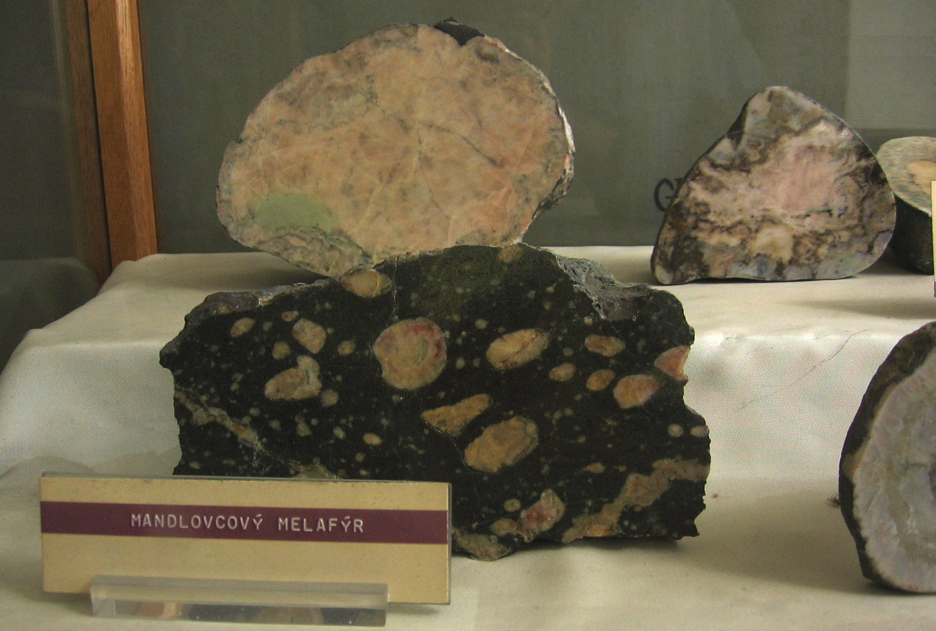 Nodules of agate or opal in permian basalt (so called melaphyry) of Malužiná beds in Ipoltica group. Choč nappe (Hronic unit) Western Carpathians. Nodules, which are fillings of empty cavities, are result of hydrothermal postvolcanic activity. Sample from Geological institute of Dionýz Štúr in Bratislava.